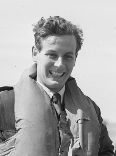 (Crop on Peter Thownsend) Royal Air Force Fighter Command, 1939-1945. Flight Lieutenants P W Townsend (left) and C B Hull of No. 43 Squadron RAF at Wick, Caithness, at the time they had shot down three enemy aircraft each. Hull became the commanding officer of the Squadron in September 1940 and was killed in action on 7 September having shot down at least 10 enemy aircraft. Townsend was to end his flying service with at least 11 victories, having commanded Nos. 85 and 605 Squadrons RAF. He then commanded RAF stations at Drem and West Malling, and No. 23 Initial Training Wing, before becoming Equerry of Honour to the King in March 1944.